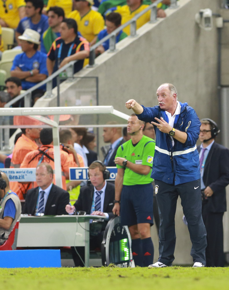 Brazil and Colombia match at the FIFA World Cup 2014-07-04